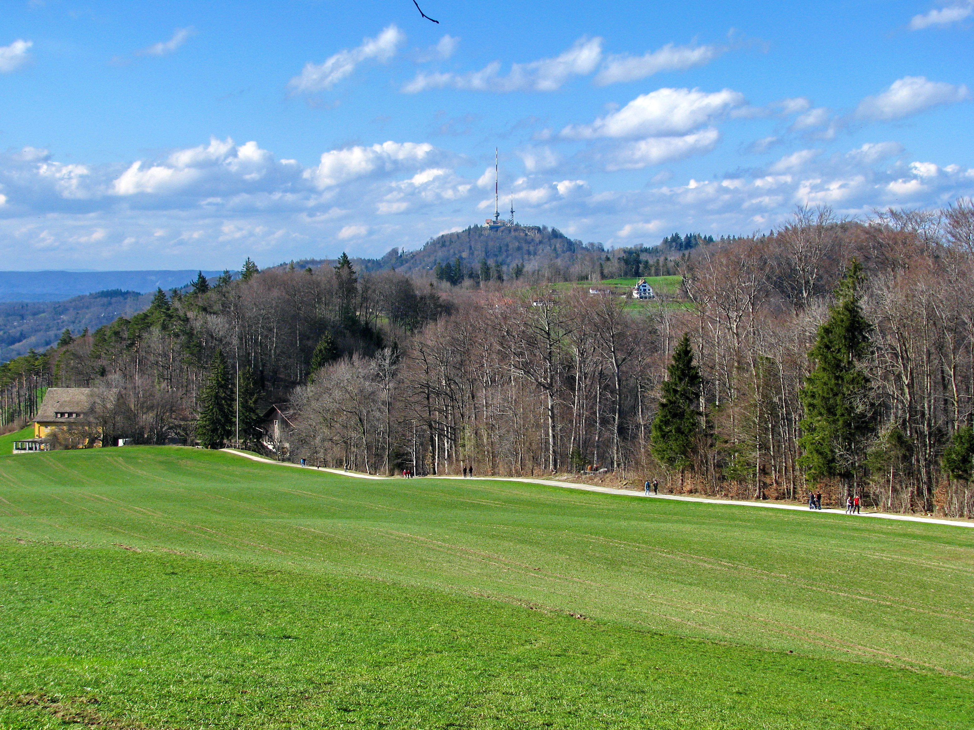 Former Restaurant Balderen on hiking trail on the Albis mountain range in the canton of Zürich